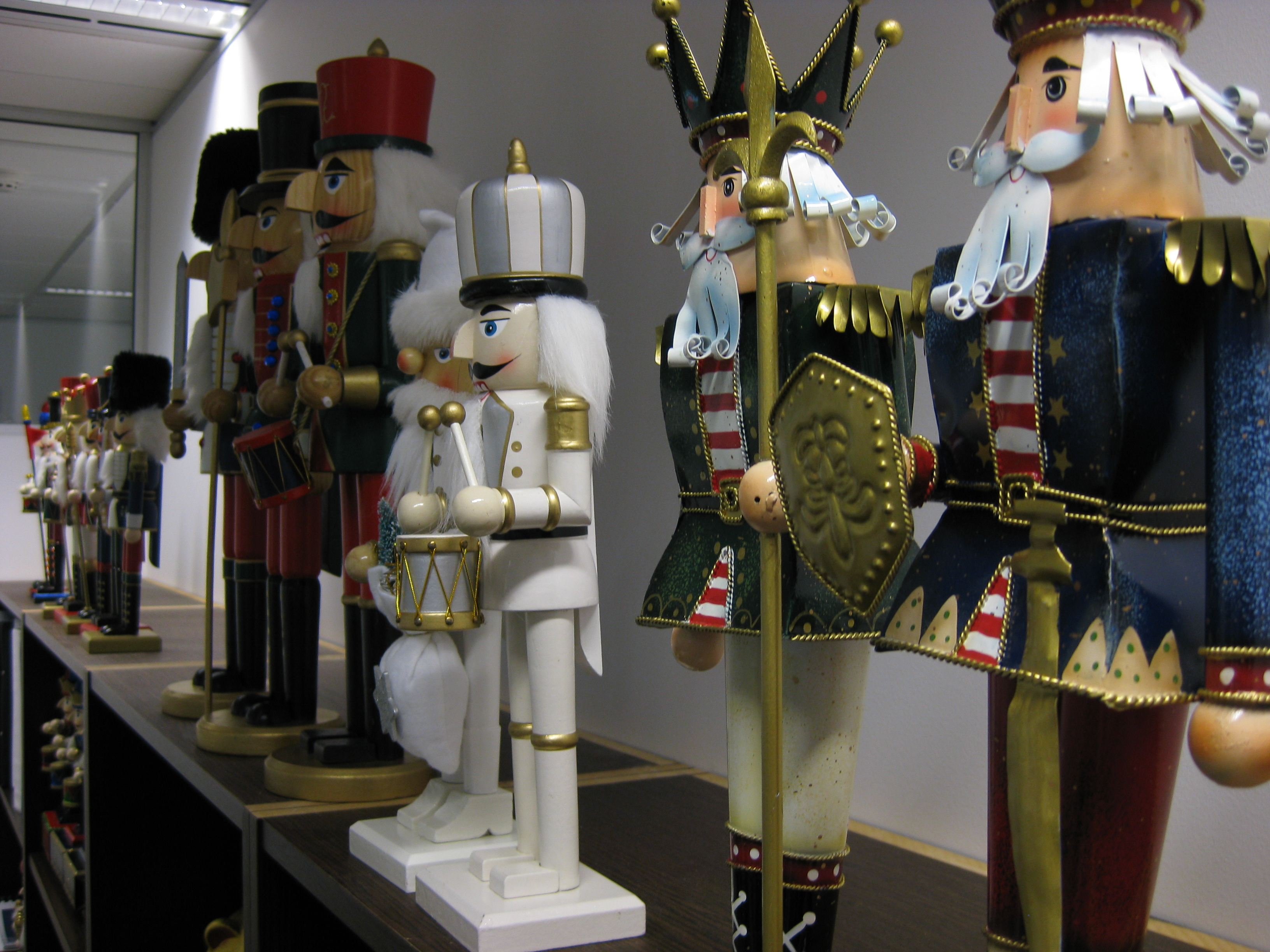 A collection of Nutcrackers